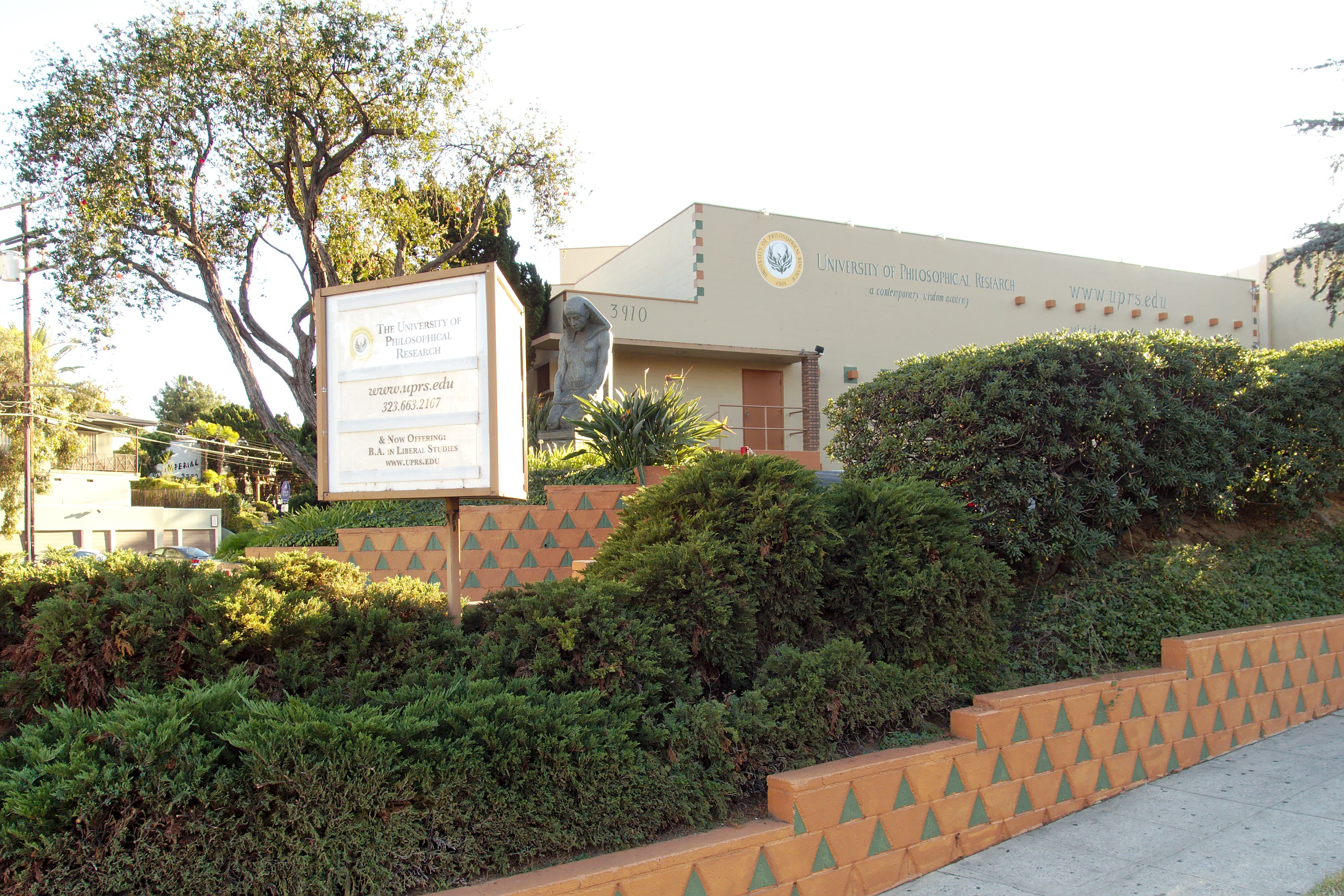 The Philosophical Research Society building, LAHCM 592, viewed from the north.